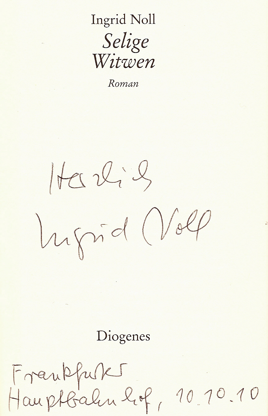 Autograph of Ingrid Noll, German crime fiction writer.